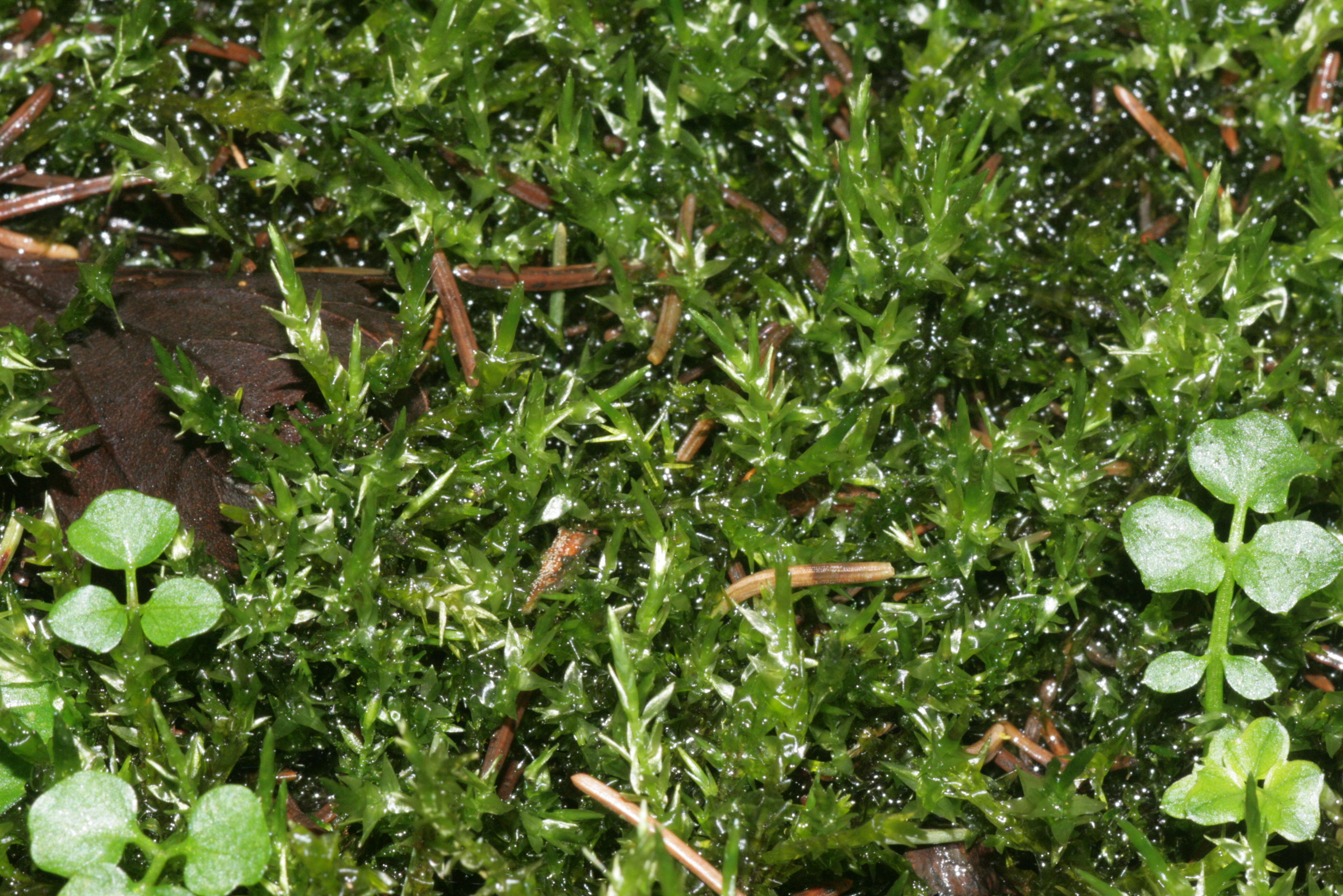 Calliergon cordifolium